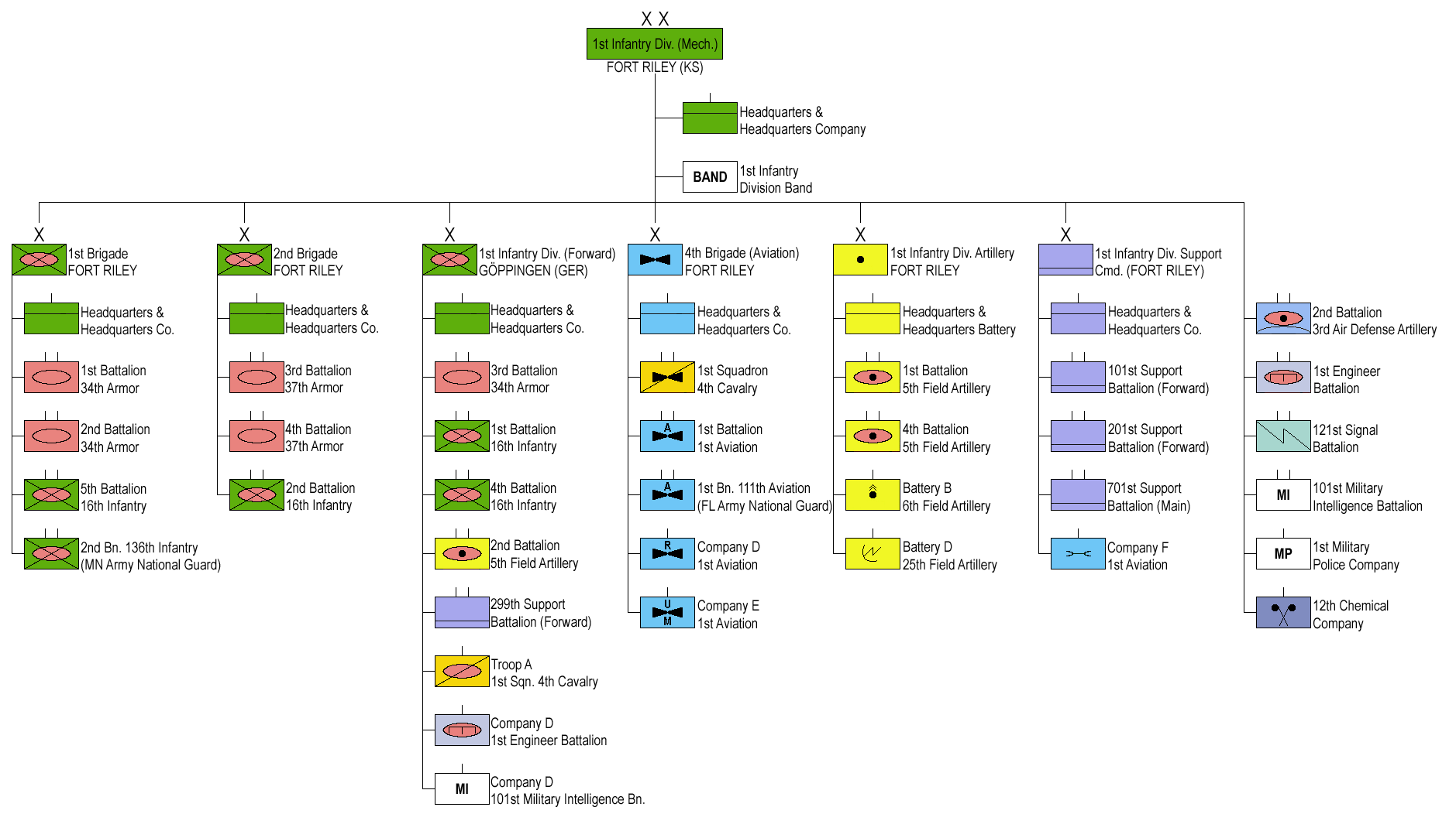 US Army 1st Infantry Division Structure in 1989